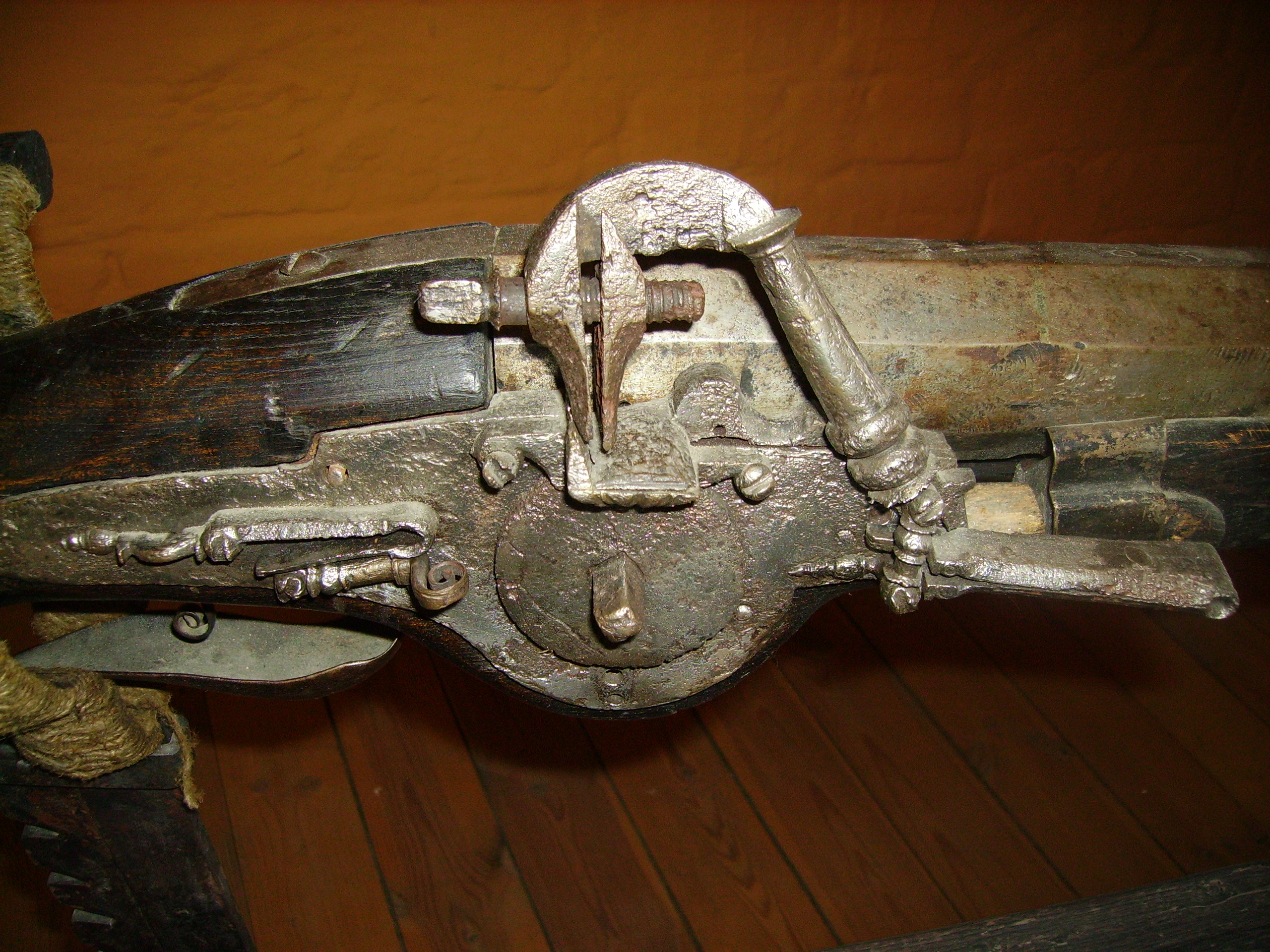 Musket from the 17th Century